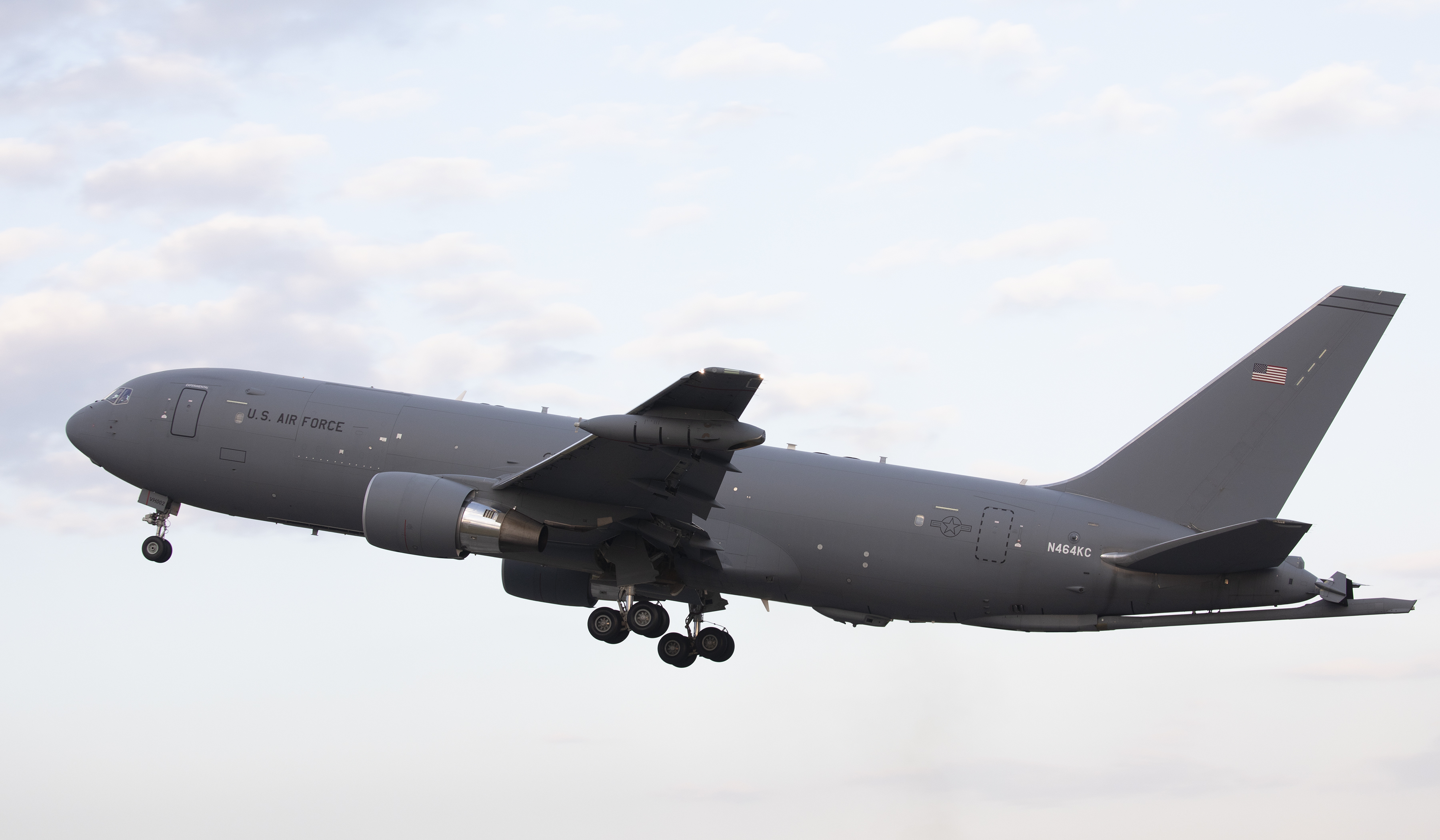 A Boeing KC-46A Pegasus takes off at Yokota Air Base, Japan, Oct. 25, 2018, during a system evaluation. This is the first time the KC-46A visited Japan. The flight is to support an initial evaluation by the USAF of the KC-46A's integrated mission system suite as well as its ability to conduct worldwide navigation, communication and operation. (U.S. Air Force photo by Yasuo Osakabe)